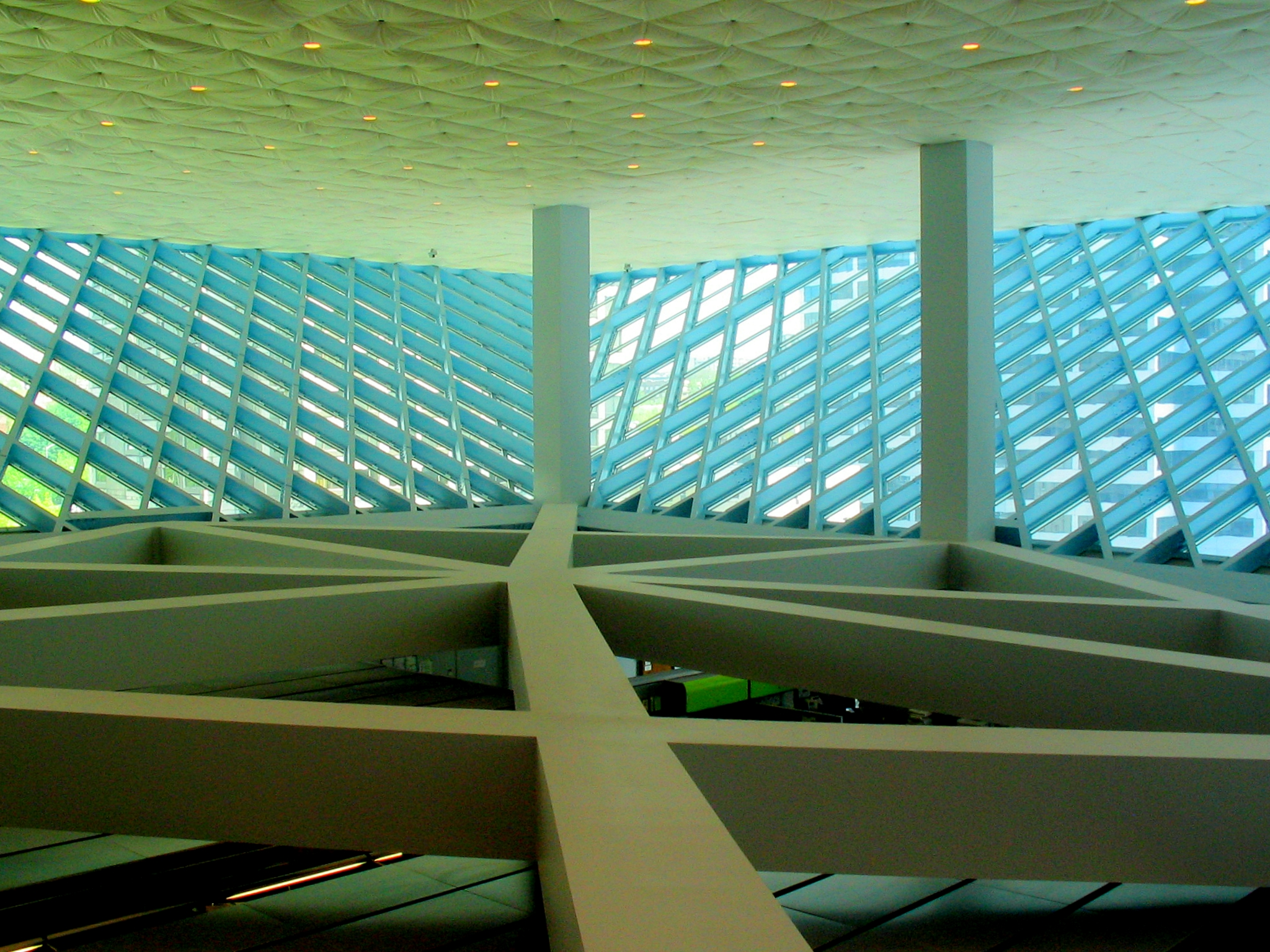 Seattle Public Library as seen from above amongst support structure